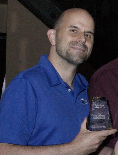 Sean K. Reynolds at the 2012 ENnies.